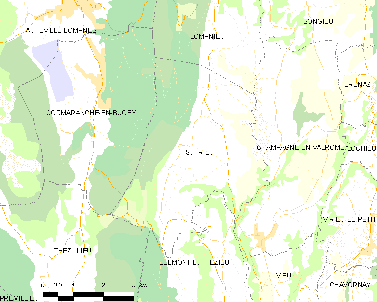 Map of French commune: Sutrieu Map commune FR insee code 01414.png